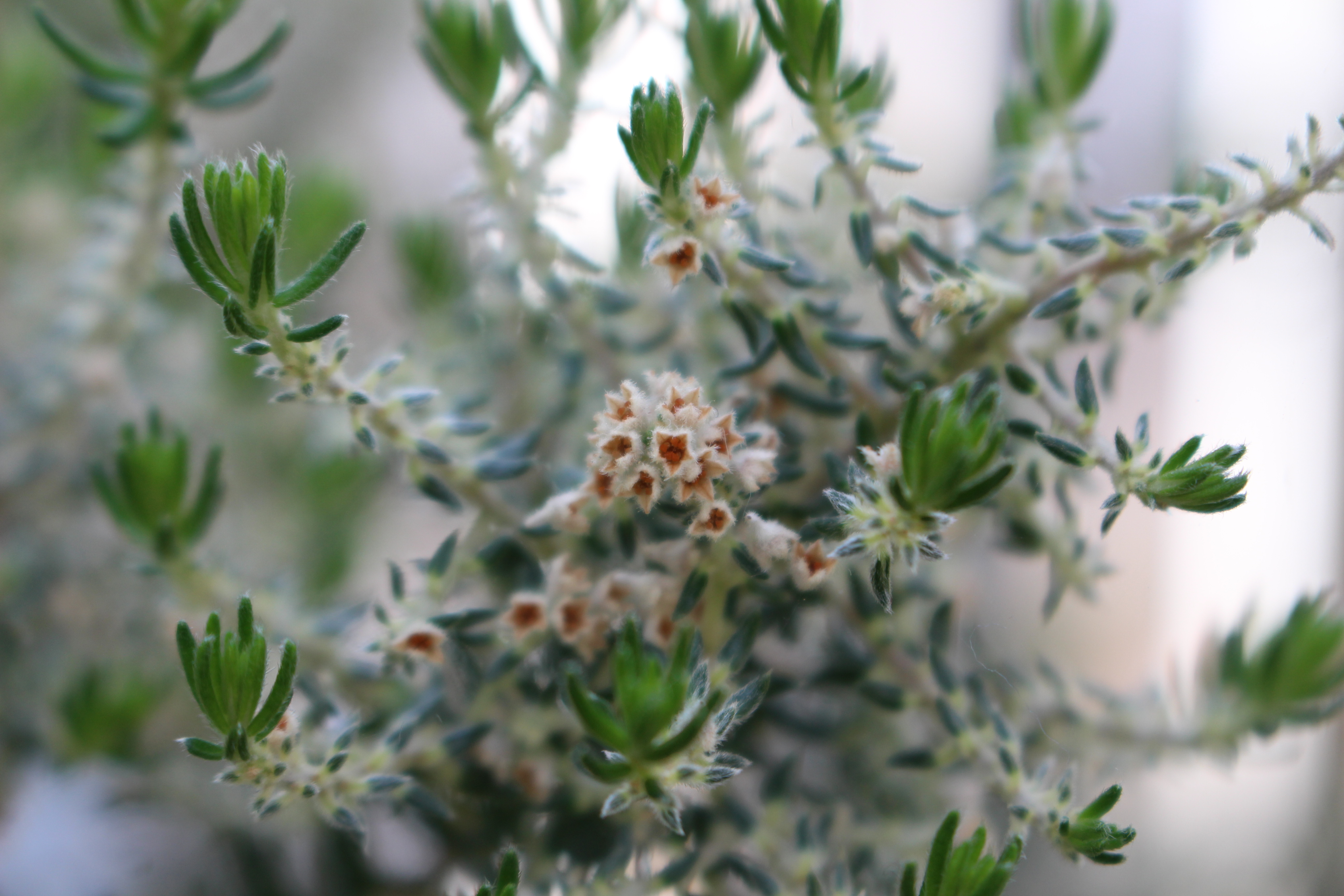 Inflorescence and characteristic leaves of a specimen of Phylica rosmarinifolia in 'Botanischer Garten Berlin', Germany